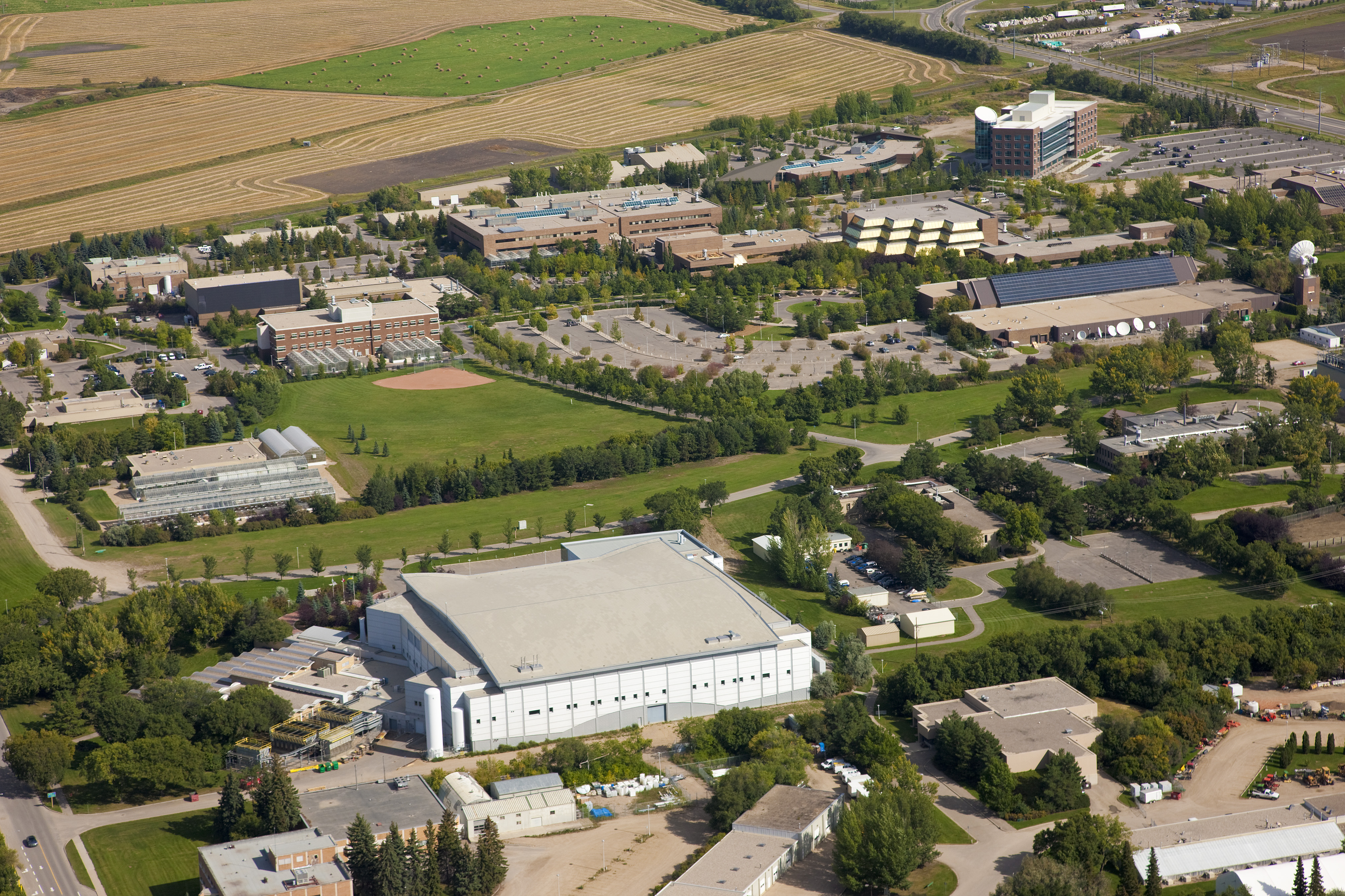 Innovation Place with the Canadian Light Source synchrotron in the foreground